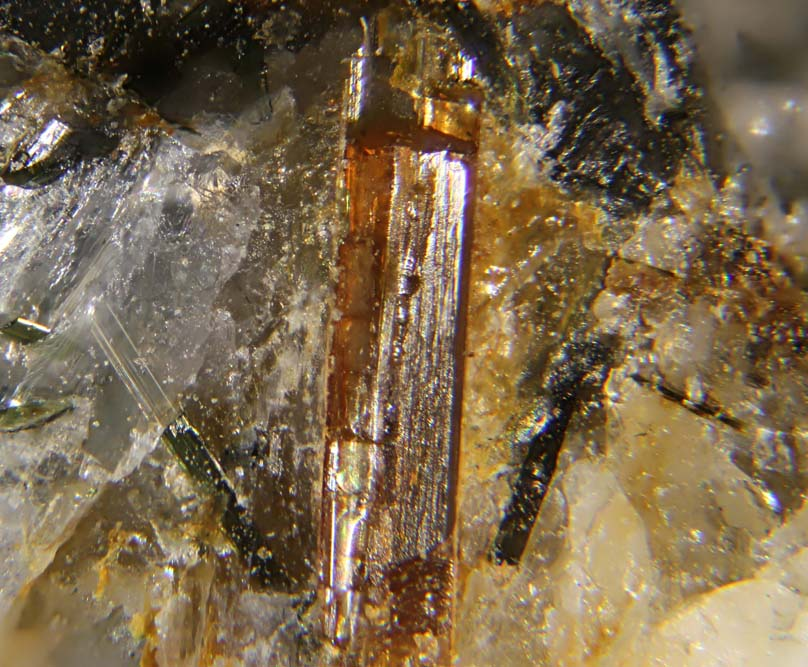 Sharp brown crystals of the very rare mineral shcherbakovite from the type locality: Rasvumtchorr, Khibiny, Kola, Russian Federation.